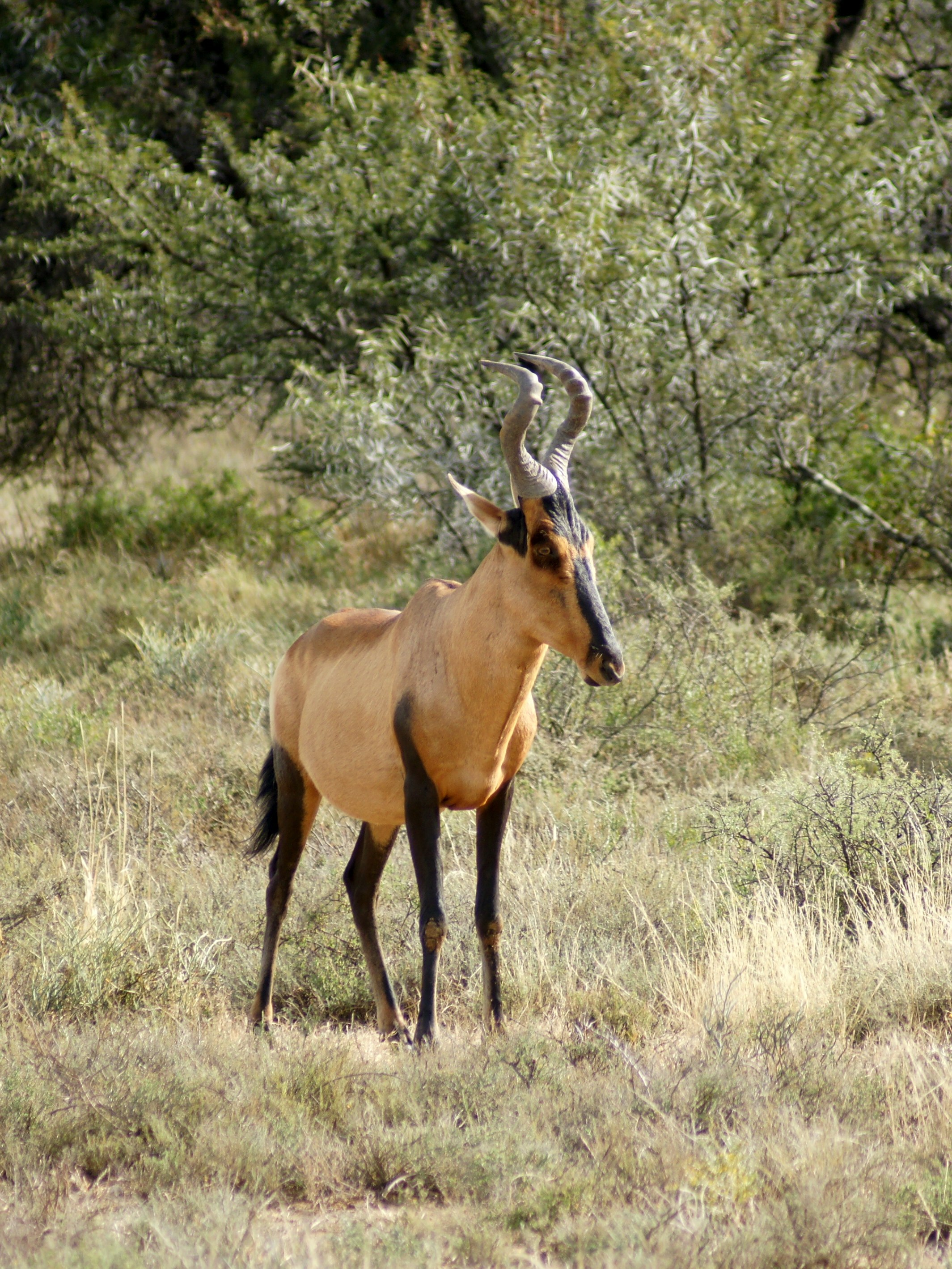 Red Hartebeest (Alcelaphus caama) in South Africa.